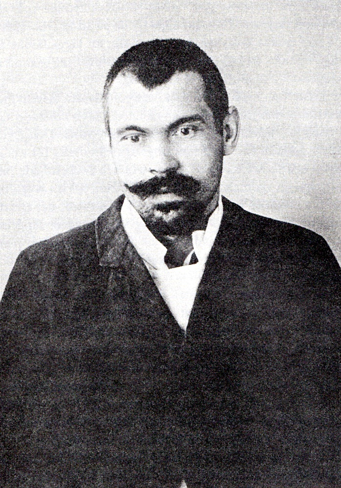 The swedish robberer Frans Otto Eriksson ("Svarta Hästen") at his arrest in 1909